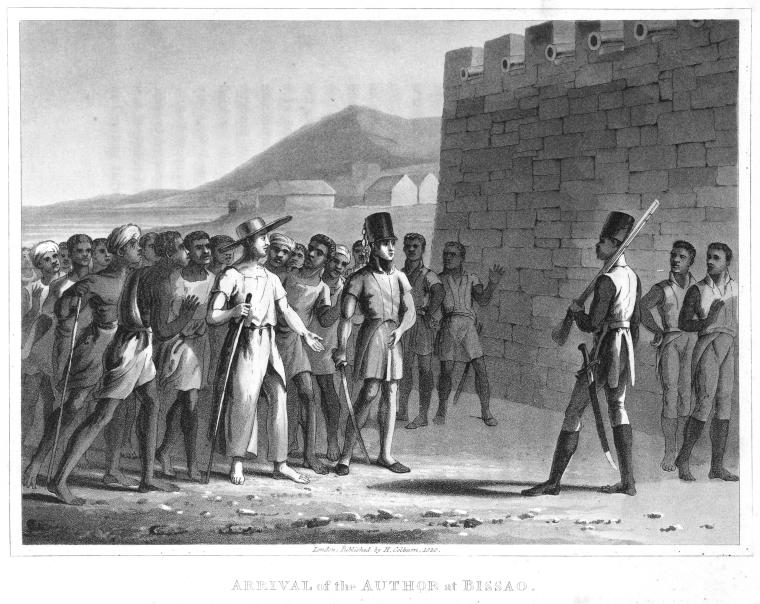 Arrival of the Author at Bissao